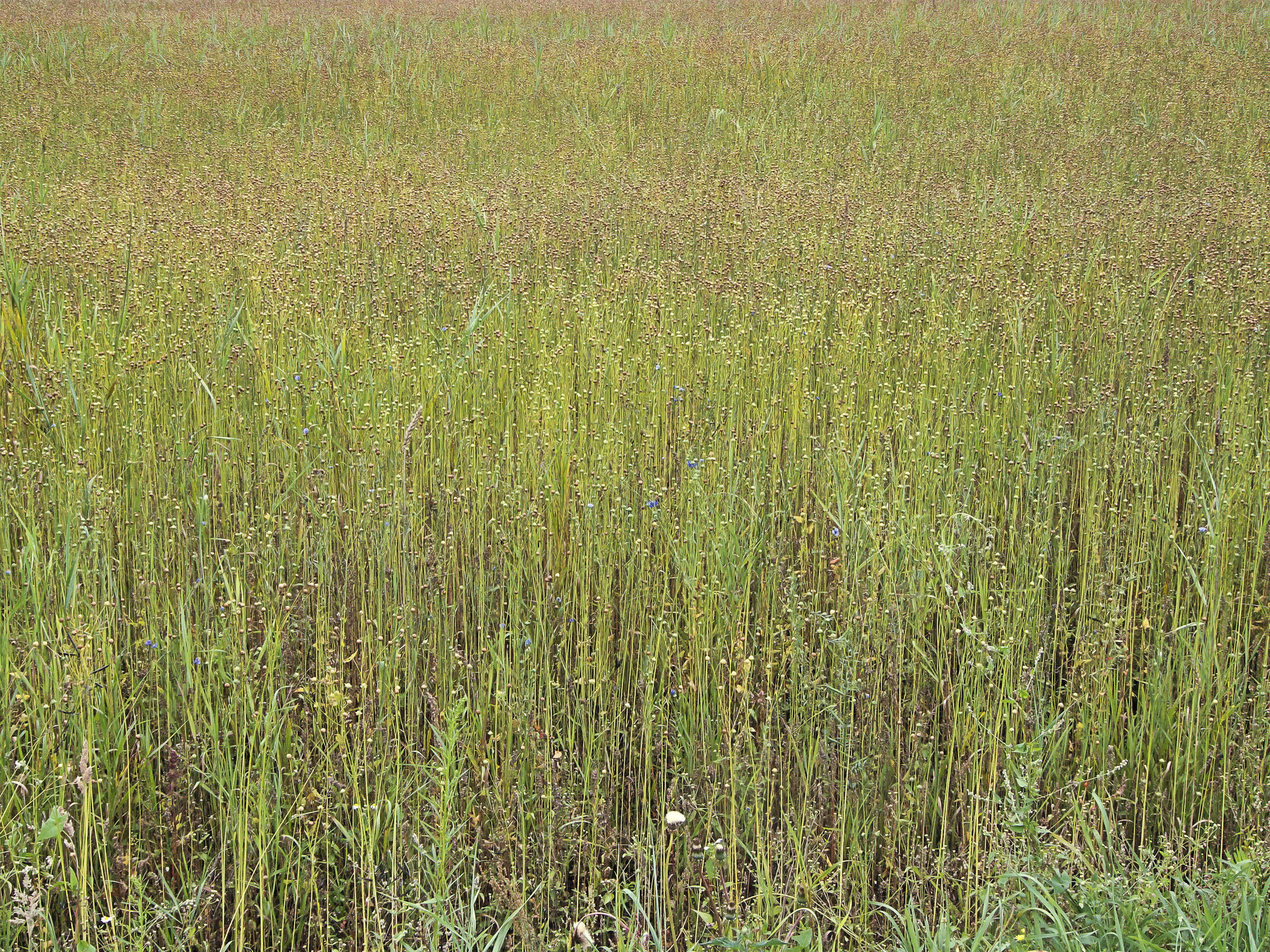 Linum usitatissimum field, Wekeromse Zand